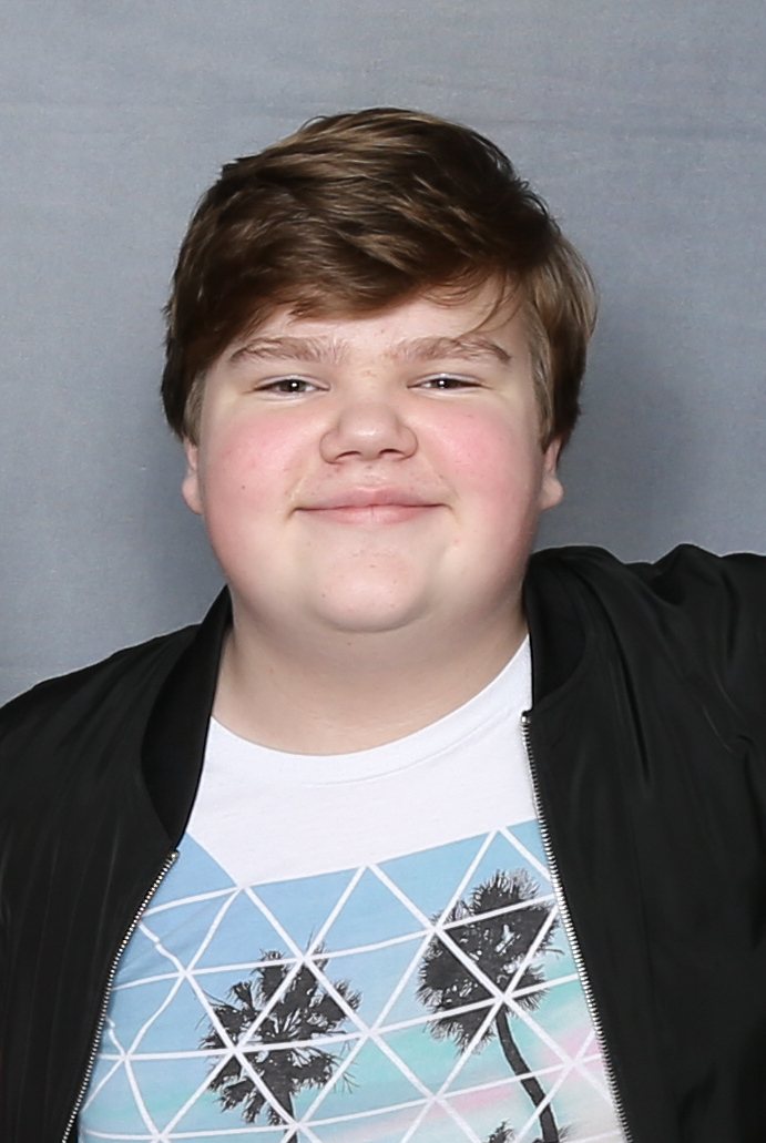 Partial cast of It (2017) at PCCC2018. From left to right: Wyatt Oleff, Chosen Jacobs, unidentified fan, Jeremy Ray Taylor and Jaeden Martell (né Lieberher)